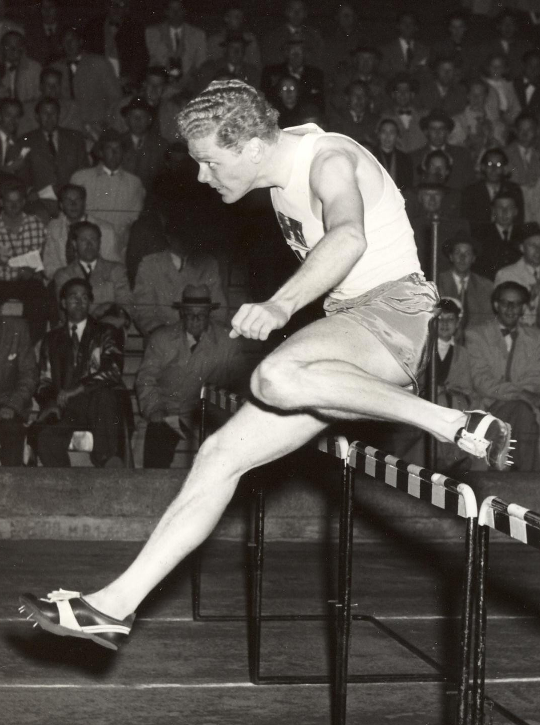 Lars Ylander clearing the last hurdle at the international meet against France in 1952